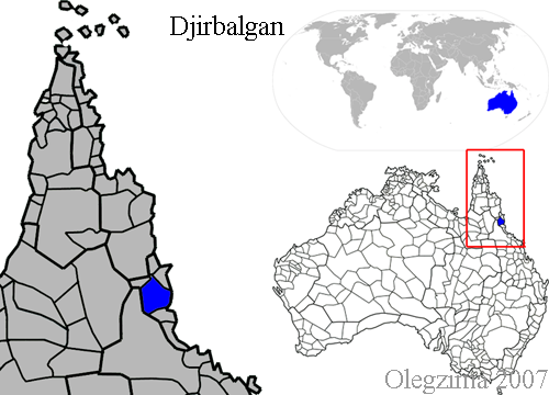 territory, where Djirbalgan language is used